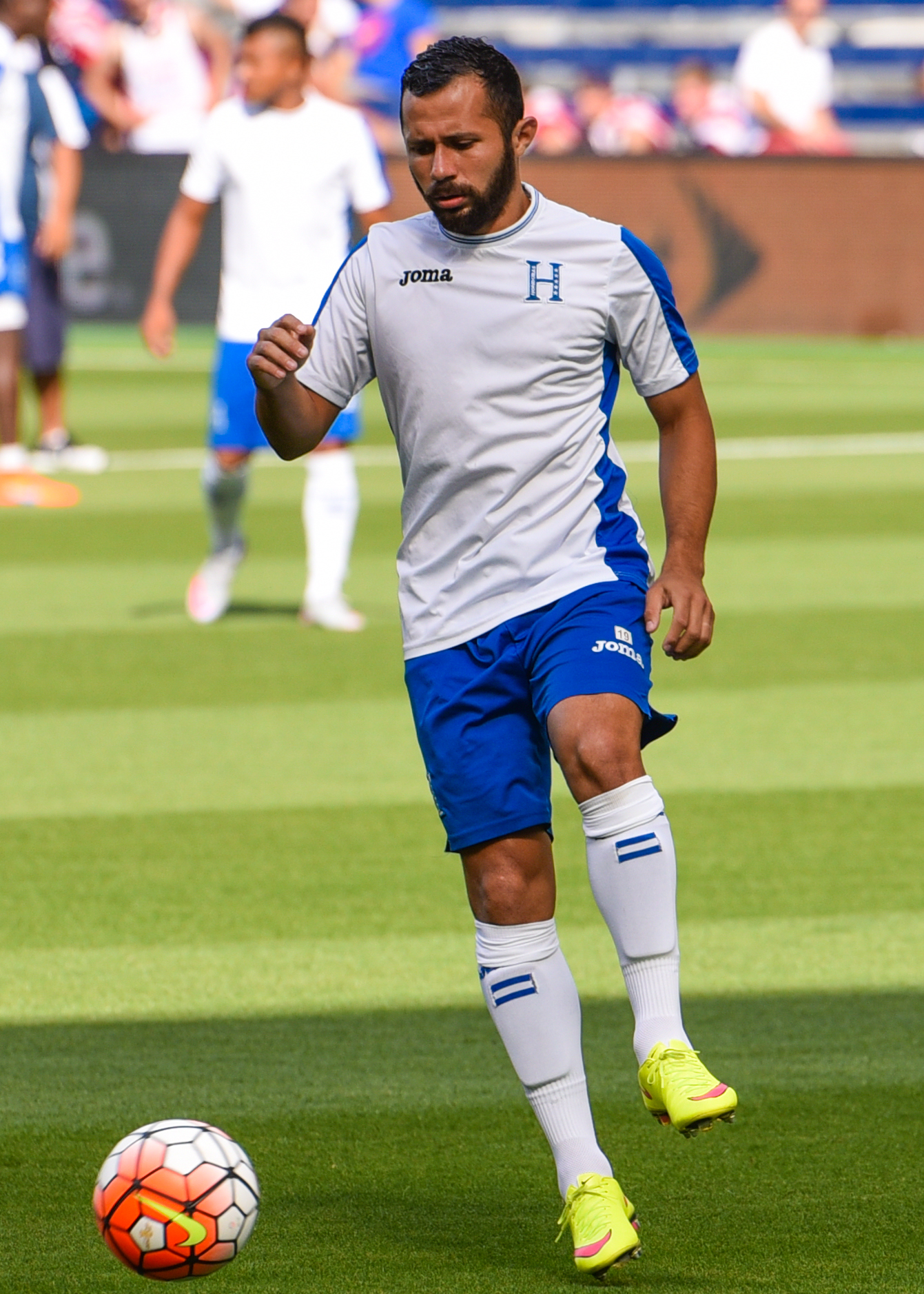 Alfredo Antonio Mejía Escobar (Alfredo Mejía) warming up with Honduras Men's National Team. Gold Cup, Kansas City, Kansas. 13JUL2015